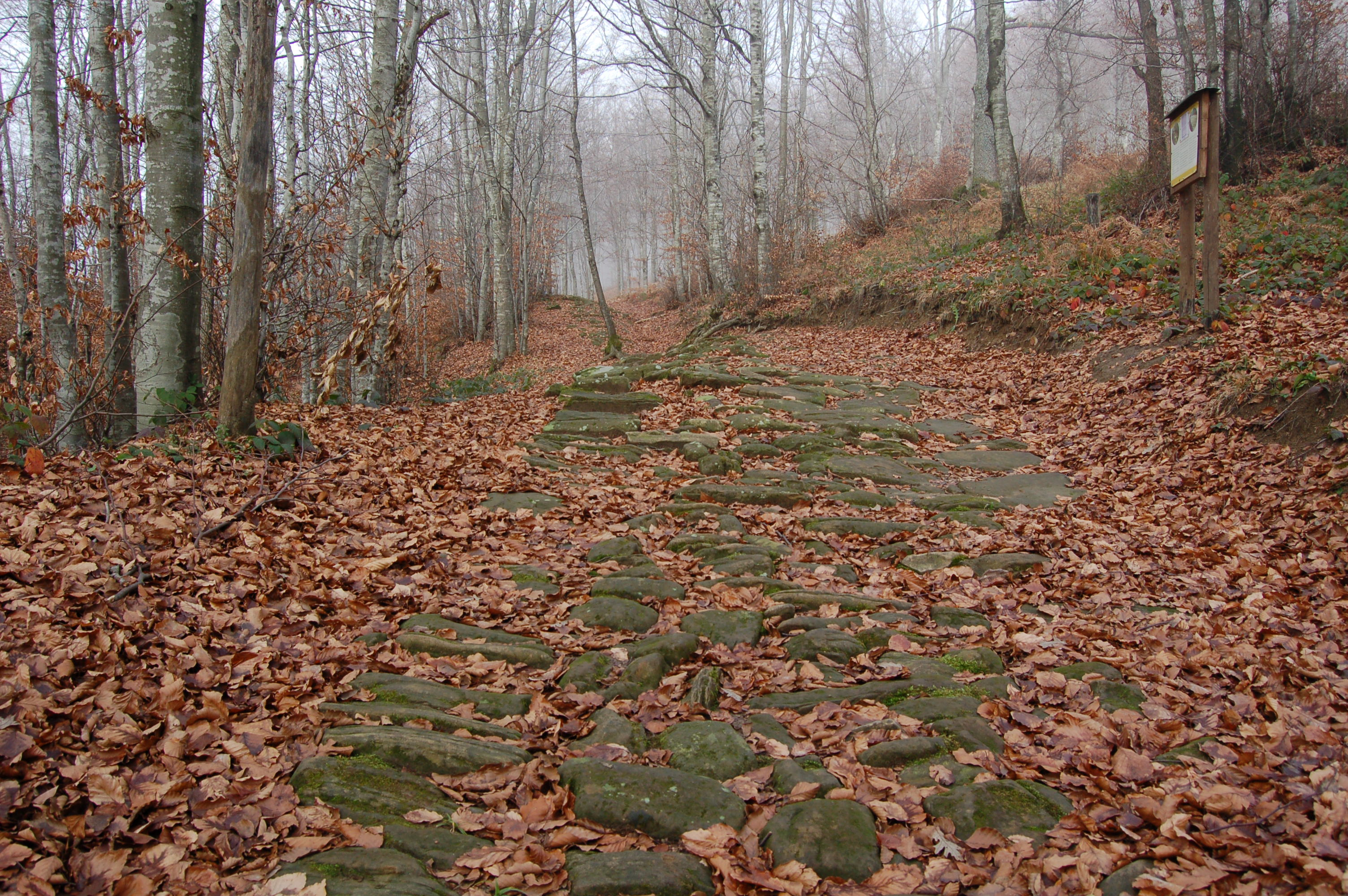 The Via Flaminia Minor, built by Ancient Roman legions around 187 BC, as it surfaces today near Pian di Balestra. Author Sandro Baldi, Bologna, Italy, camera Nikon D50 with optical standard, Step run 27/11/2006.